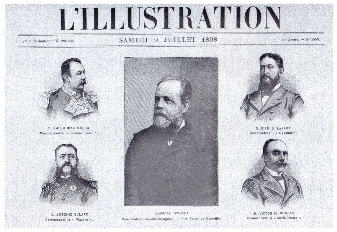 The staff of the Spanish fleet (1898)